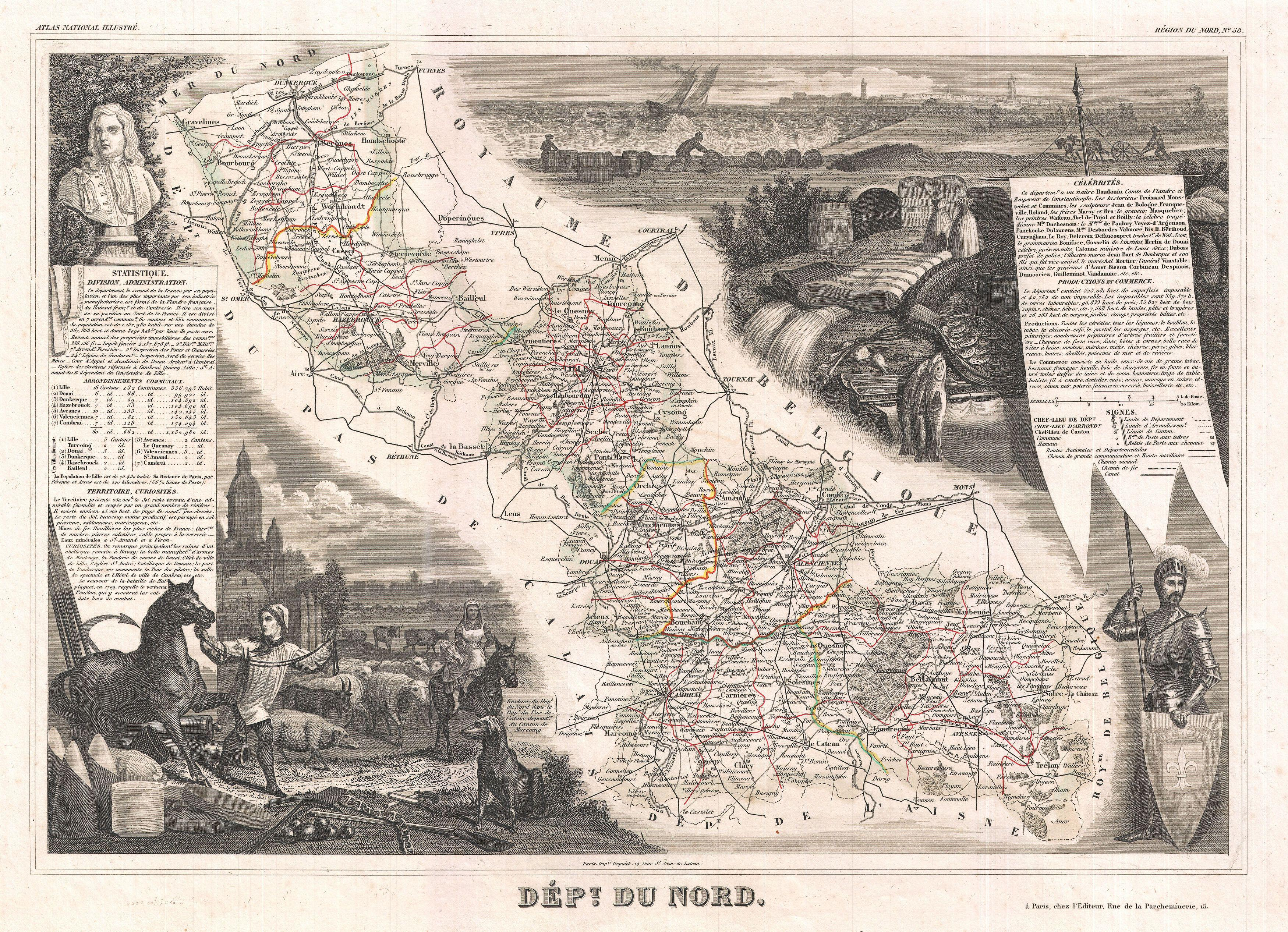 This is a fascinating 1852 map of the French department of Nord, France. This area is known for its production of Maroilles, a cow’s milk cheese. This cheese is produced in rectangular blocks with a moist orange-red washed rind and a strong, distinct odor. The map proper is surrounded by elaborate decorative engravings designed to illustrate both the natural beauty and trade richness of the land. There is a short textual history of the regions depicted on both the left and right sides of the map. Published by V. Levasseur in the 1852 edition of his Atlas National de la France Illustree.